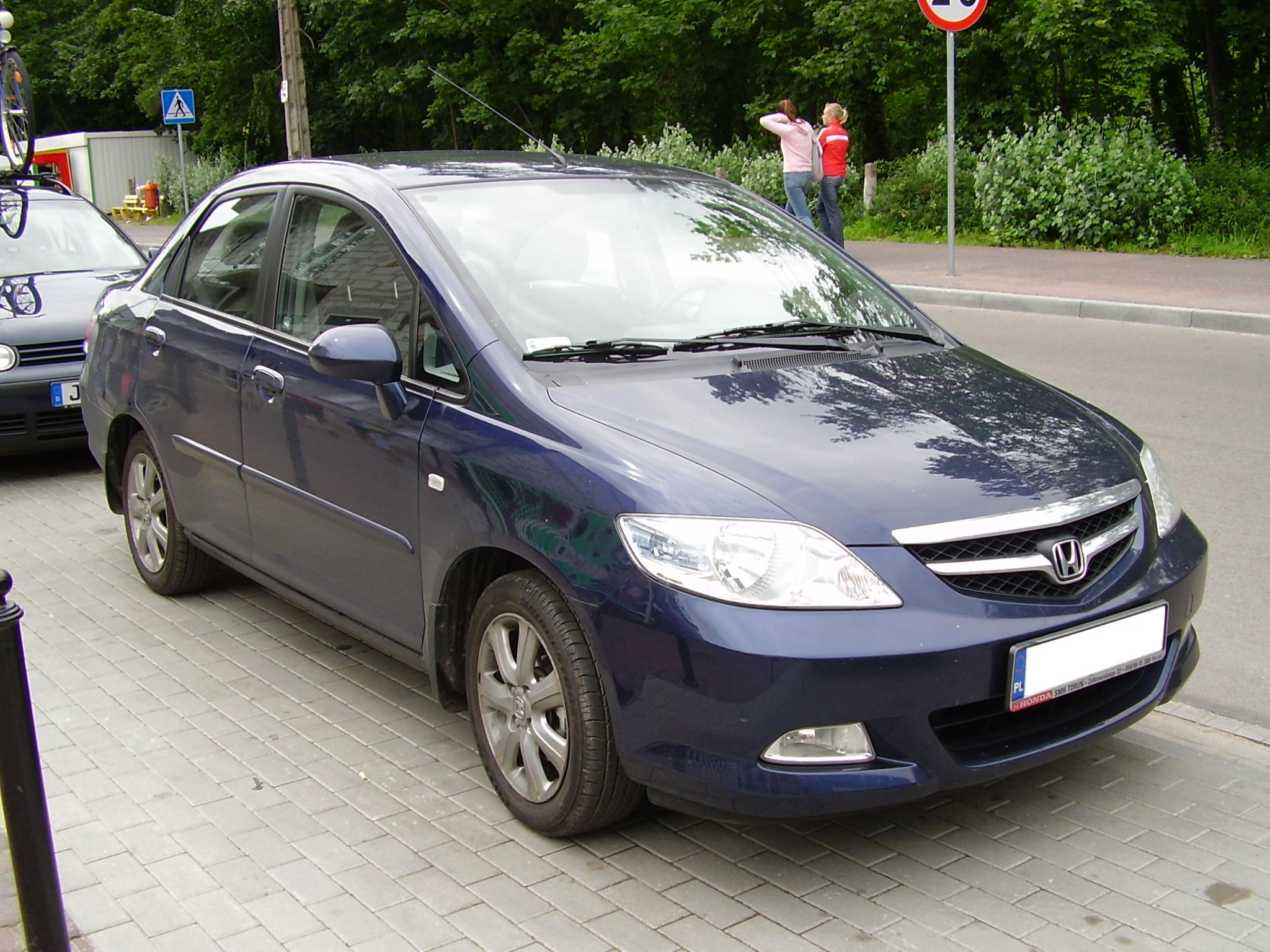 Honda City in Dziwnów (Poland)